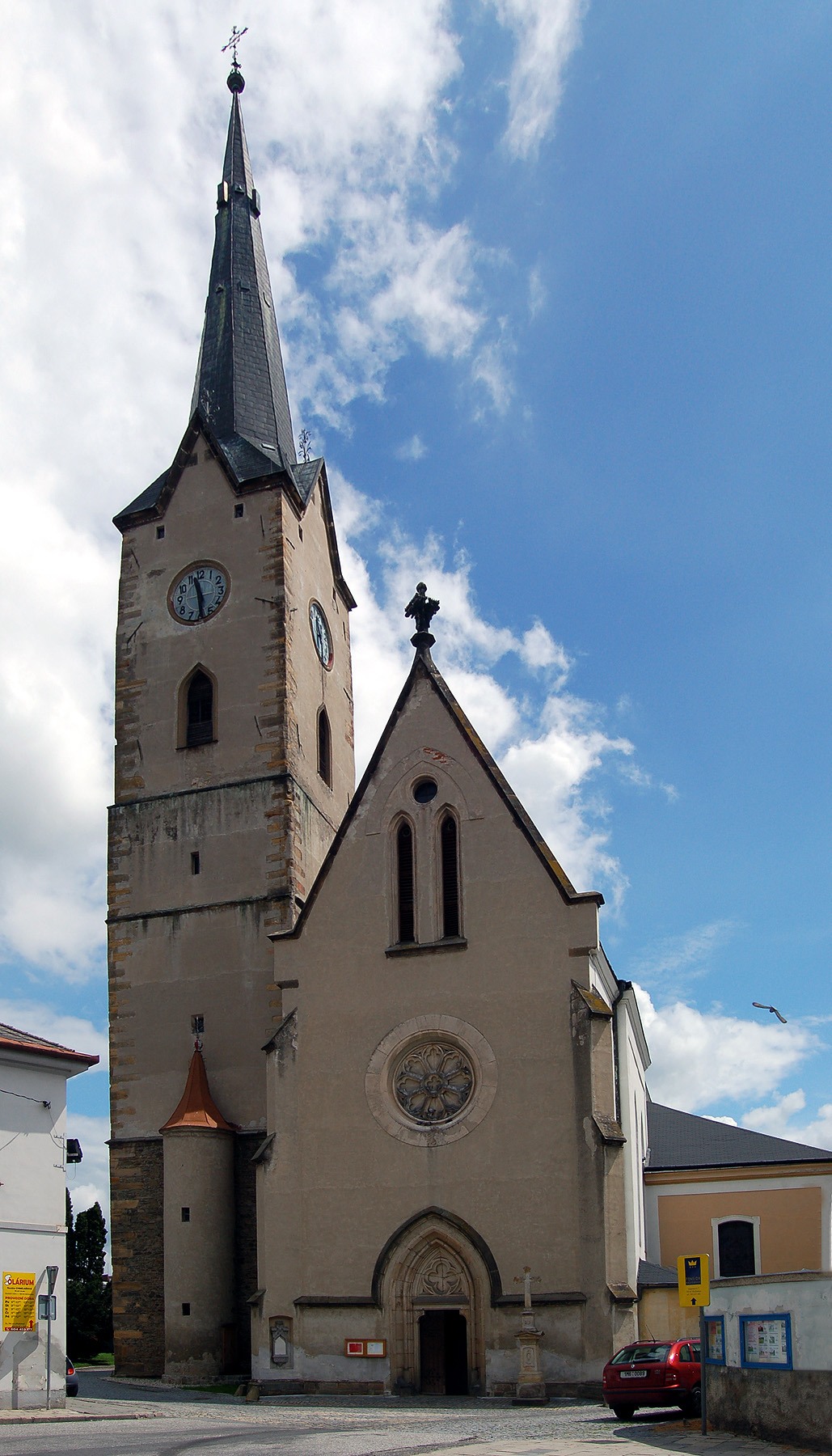 Parish church of St Thomas of Canterbury (mentioned under its original dedication to Virgin Mary already in 1247) in Mohelnice, Šumperk District, Czech Republic